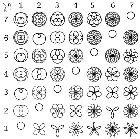 Samples of vary rhodonea curve